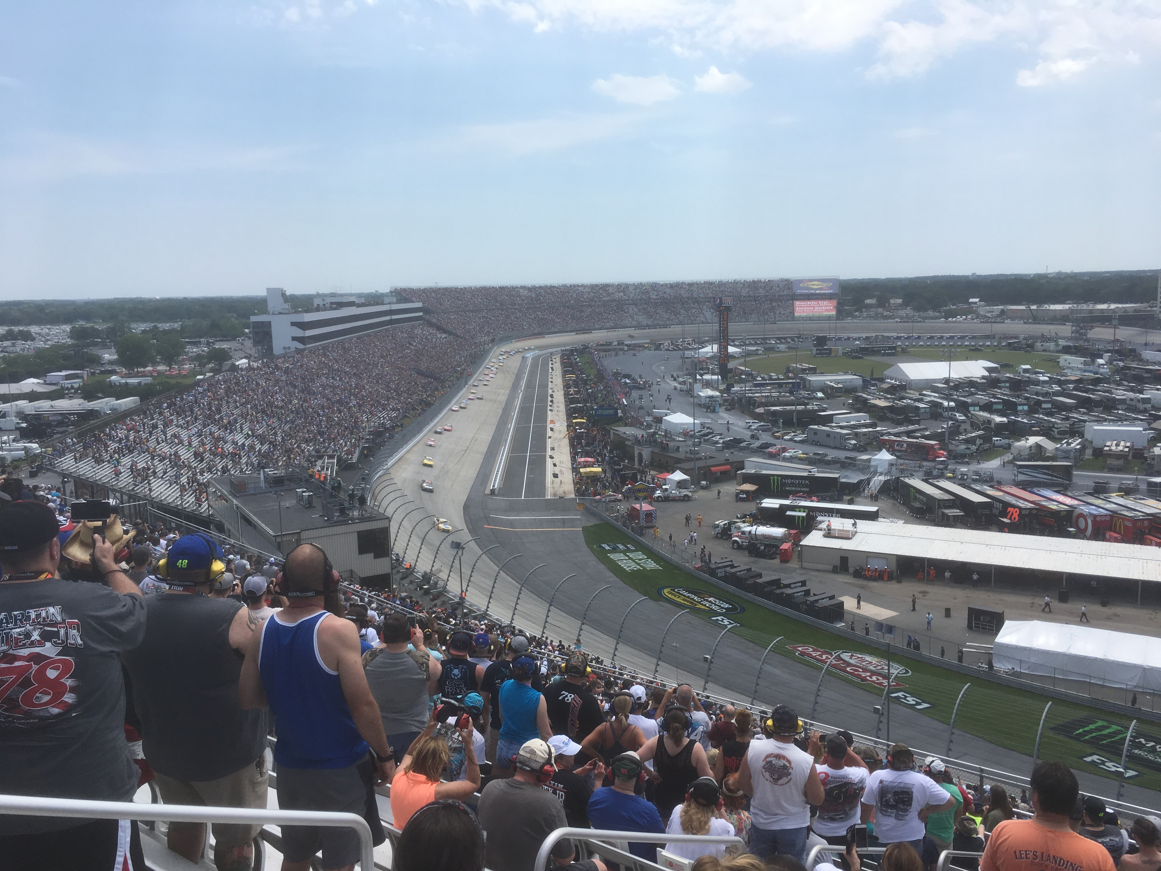 The 2017 AAA 400 Drive for Autism at Dover International Speedway viewed from turn 1, with polesitter Kyle Busch (#18) leading Martin Truex Jr. (#78) and the rest of the field early in the race.